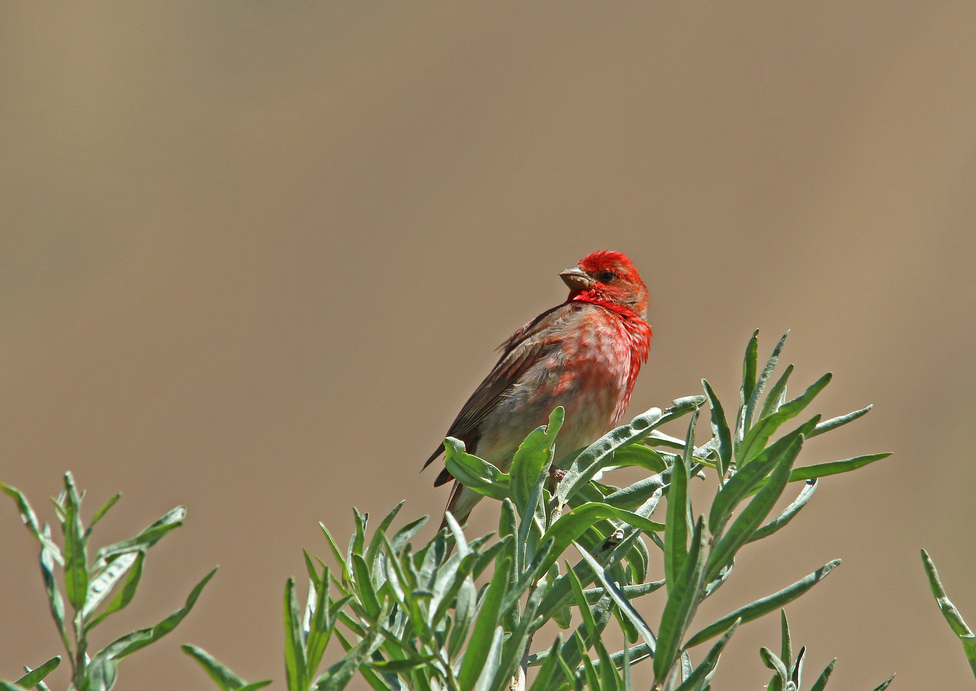 Common Rosefinch (Carpodacus erythrinus) captured at Chapursan, Gojal, Gilgit-Baltistan, Pakistan with Canon EOS 650D